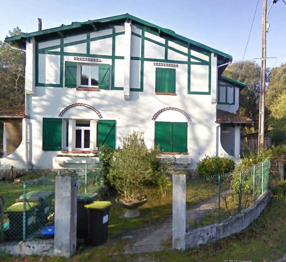 A double house in the Cité du Balisage at Pointe de Grave